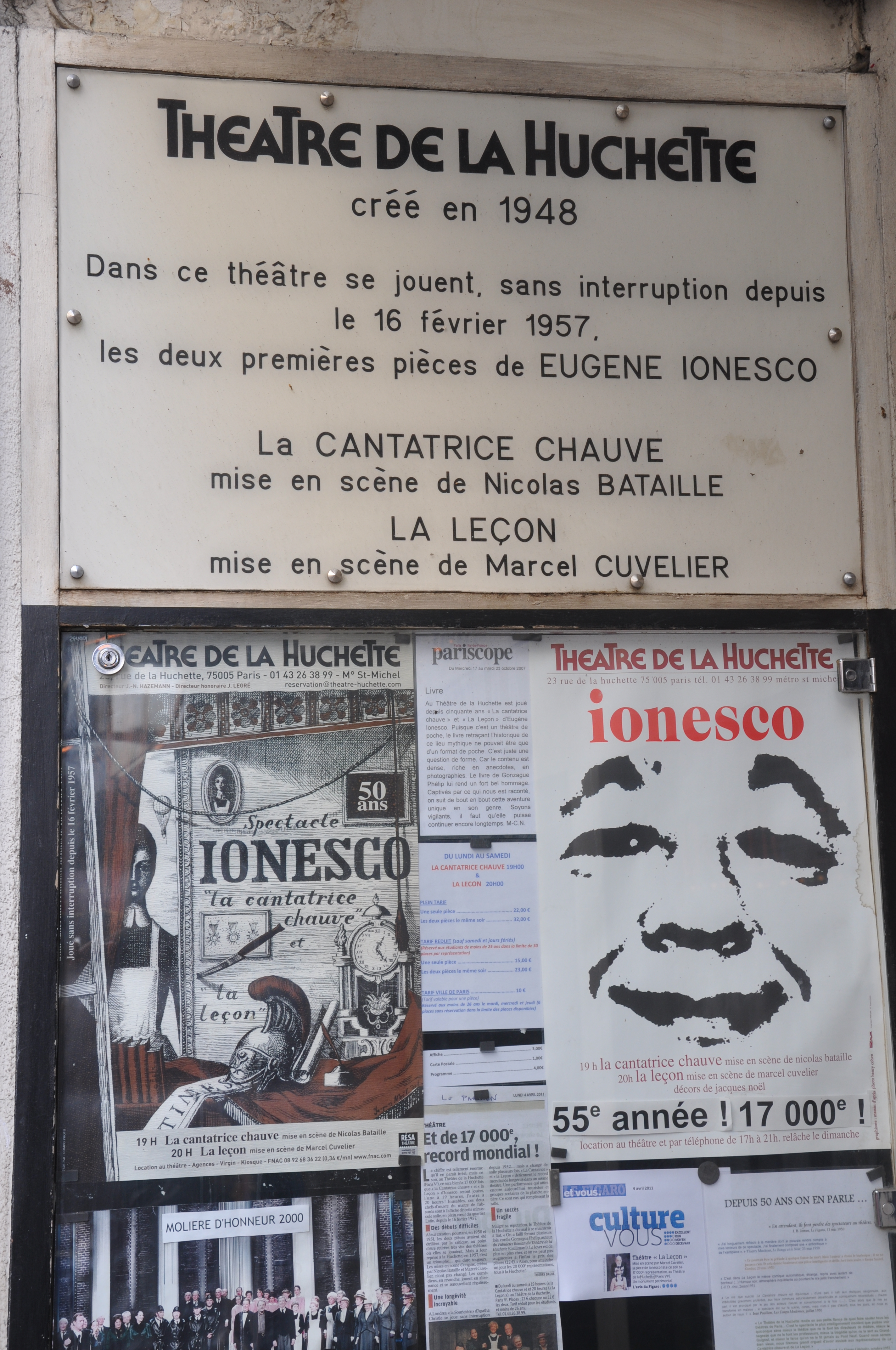 Poster before the "théâtre de la Huchette" (Paris, France).